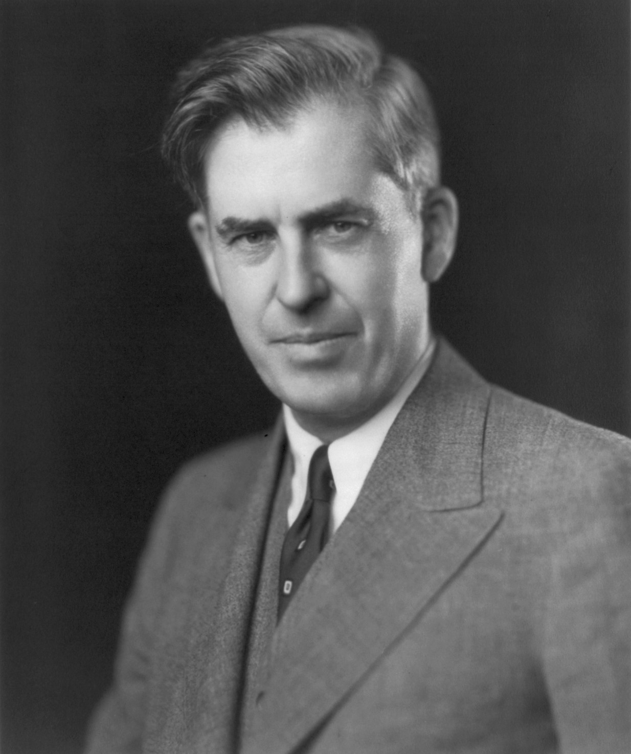 Henry Agard Wallace, 1888–1965, bust portrait, facing left